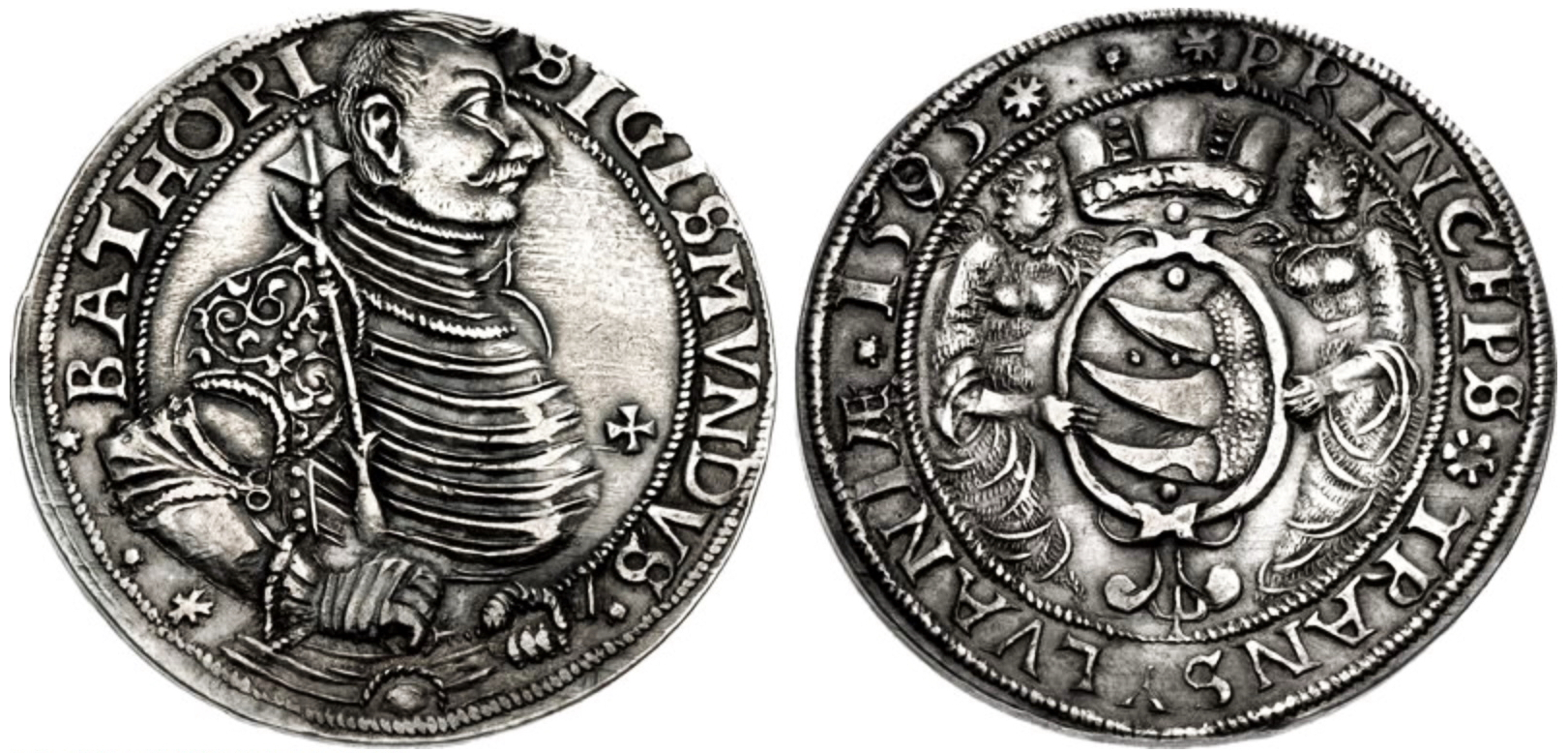 Thaler of Sigismund Báthory minted in 1595 in Nagybánya/Baia Mare (40 mm, 28.63 g)